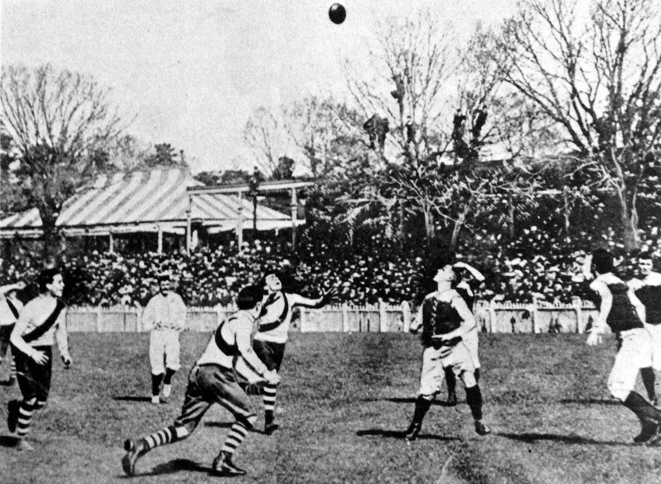 Carlton v South Melbourne, the VFL Grand Final of Australian rules football.